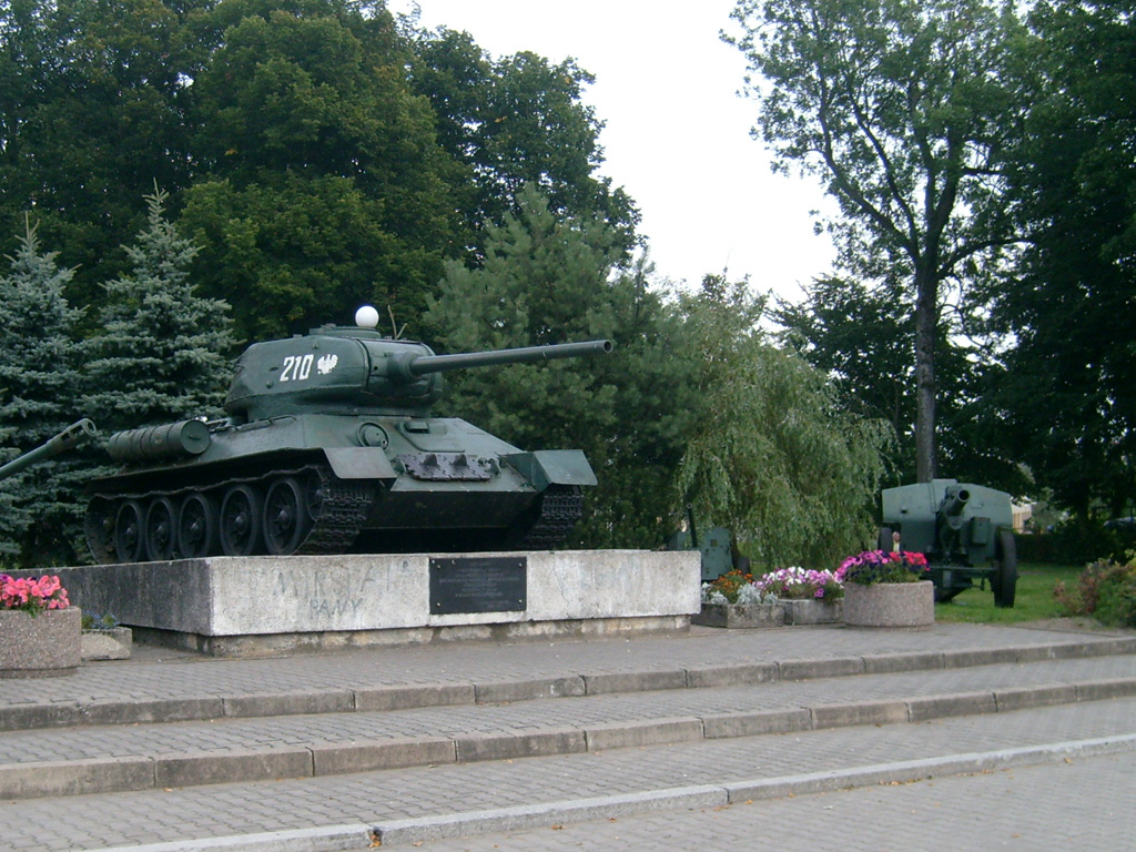 The museum of Pomeranian Wall in Mirosławiec, Poland